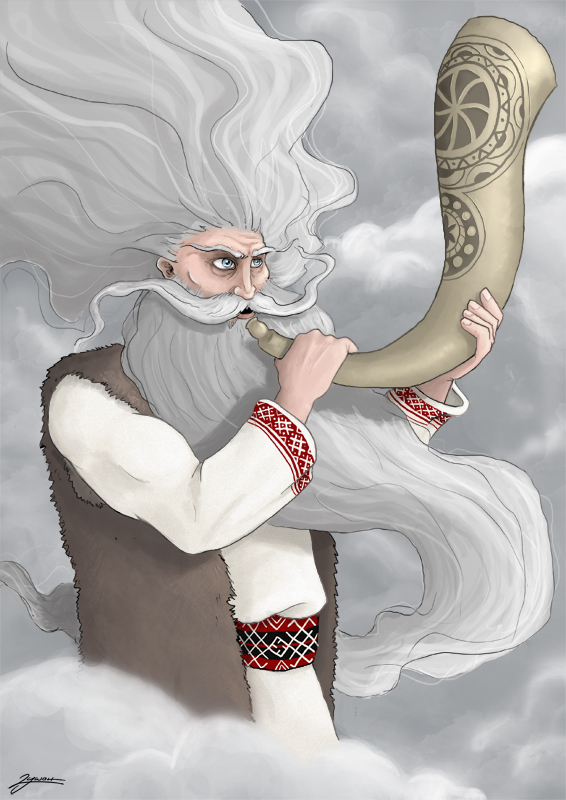 Stribog by Dušan Božić